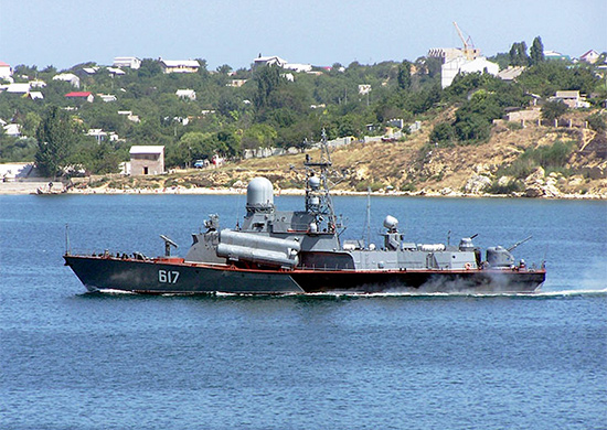 Russian Guided Missile Corvette Mirazh in Sevastopol.